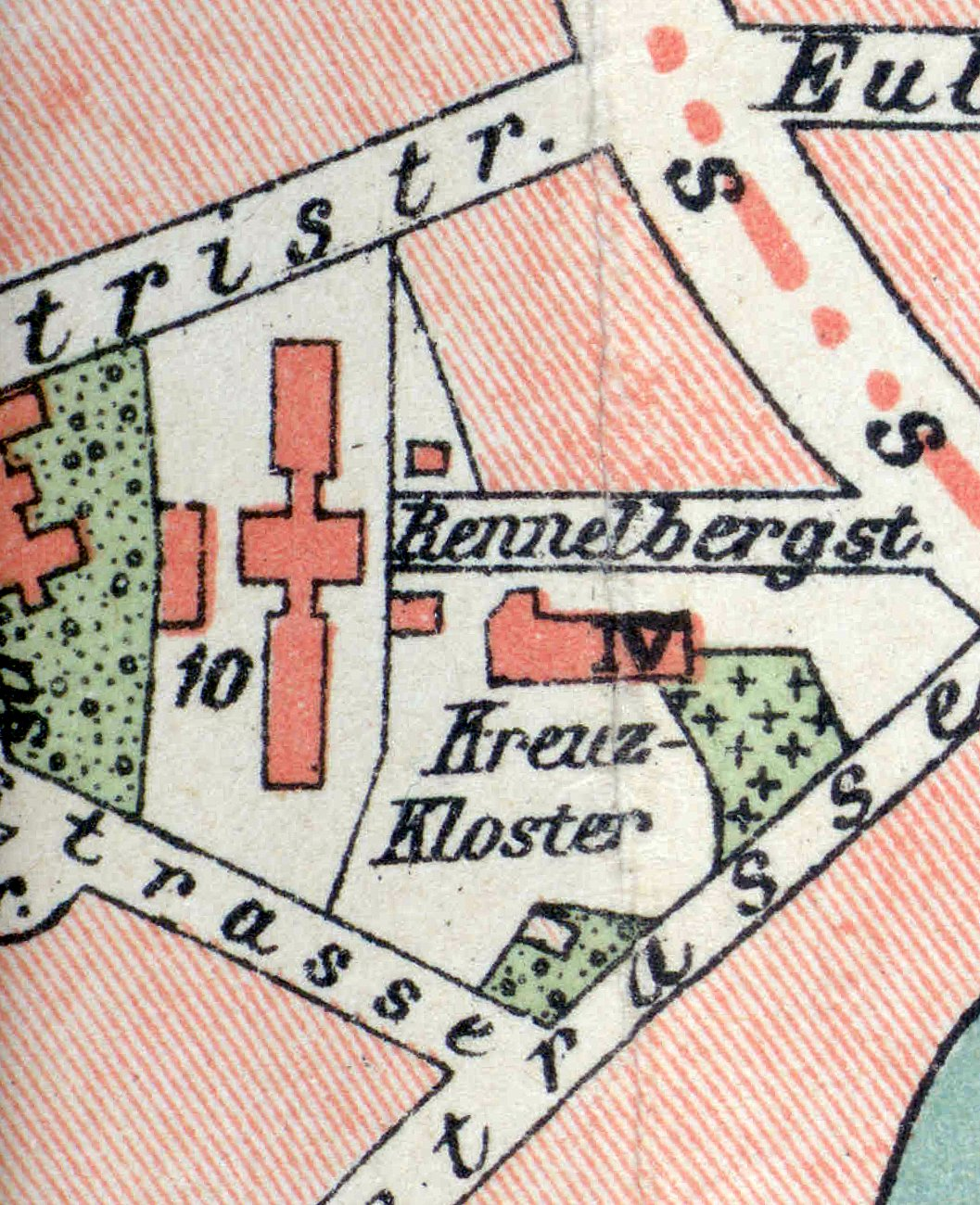 Braunschweig, Germany: The Monastery of the Cross on an city map from 1899.)